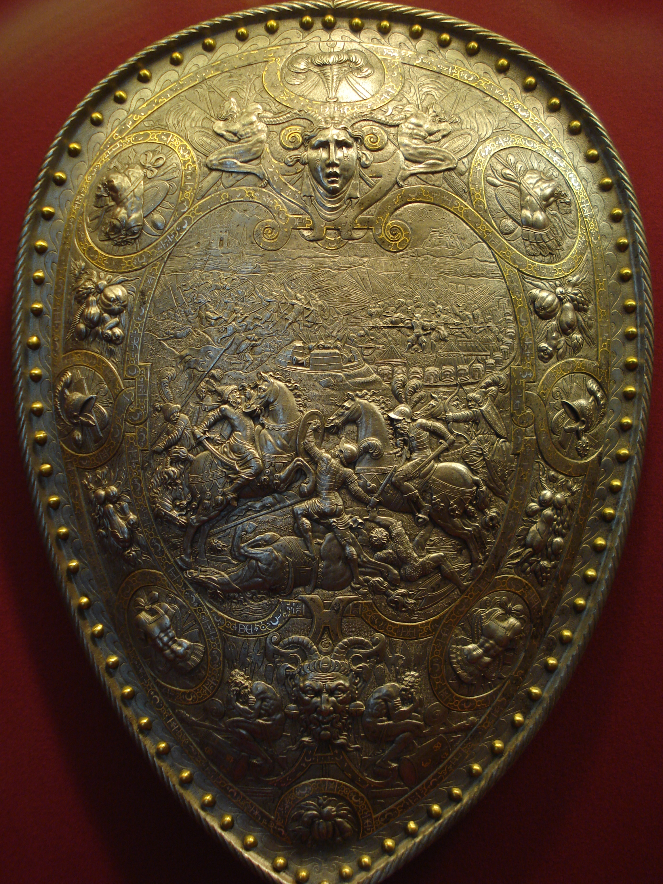 Shield of Henry II of France. Steel, embossed and damascened with silver and gold. The embossed scene at the center of the shield is an illustration of Hannibal's victory of the Romans at Cannae in 216 BC, a metaphor for France against the armies of the Holy Roman Empire in the 1500s. The design of the shield is attributed to Paris goldsmith Etienne Delaune.